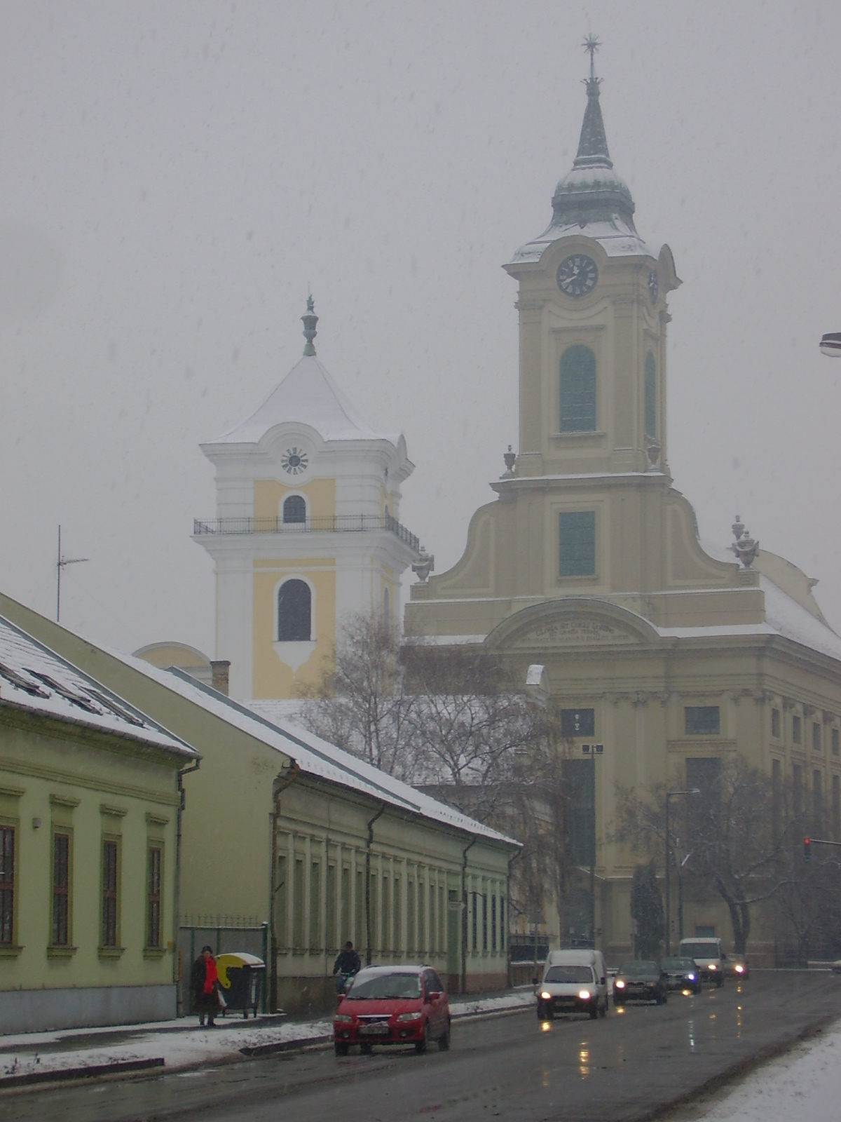 Evangelic churches in Békéscsaba